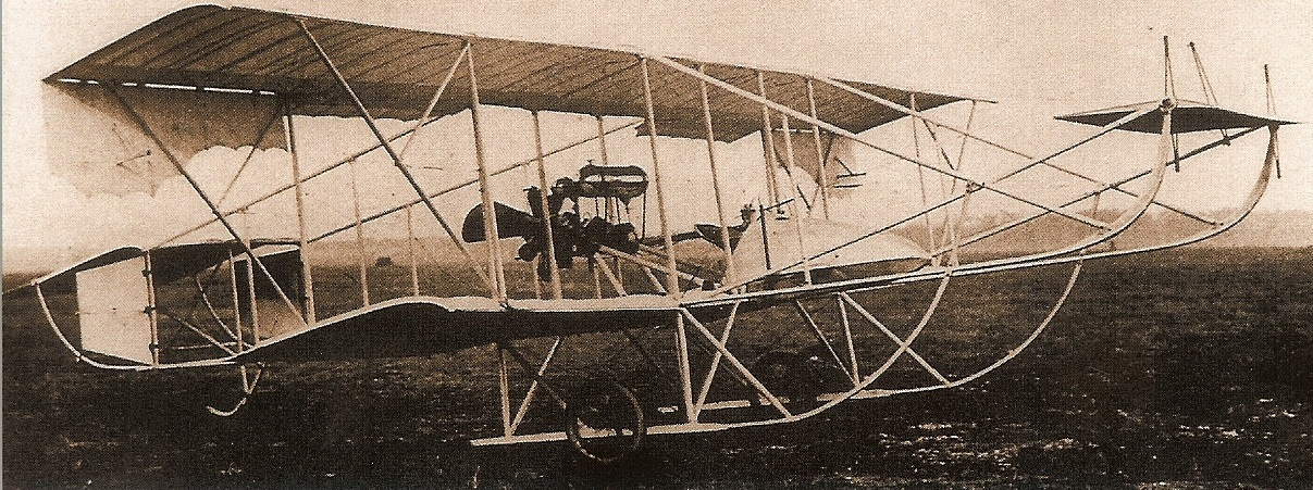 (会式一号機). (徳川 好敏) at Tokorozawa Airfield in 1911. The (会式一号機) today, can be seen in Tokorozawa Aviation Museum, as its replica hung from a ceiling above the museum entrance.